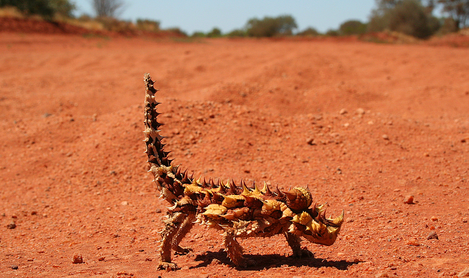 thorny dragon at Great Central Road, Western Australia